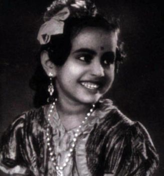 Screenshot from 1937 Tamil film Balayogini. Baby Saroja was the first child film star of Tamil cinema.